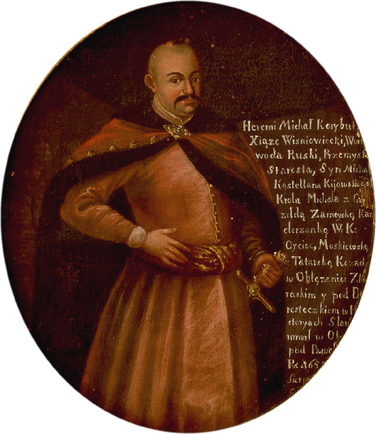 prince Jeremi Wisniowiecki - portrait from Wilanow's Wisniowiecki family portraits' assambly - copy from Wisniowiec